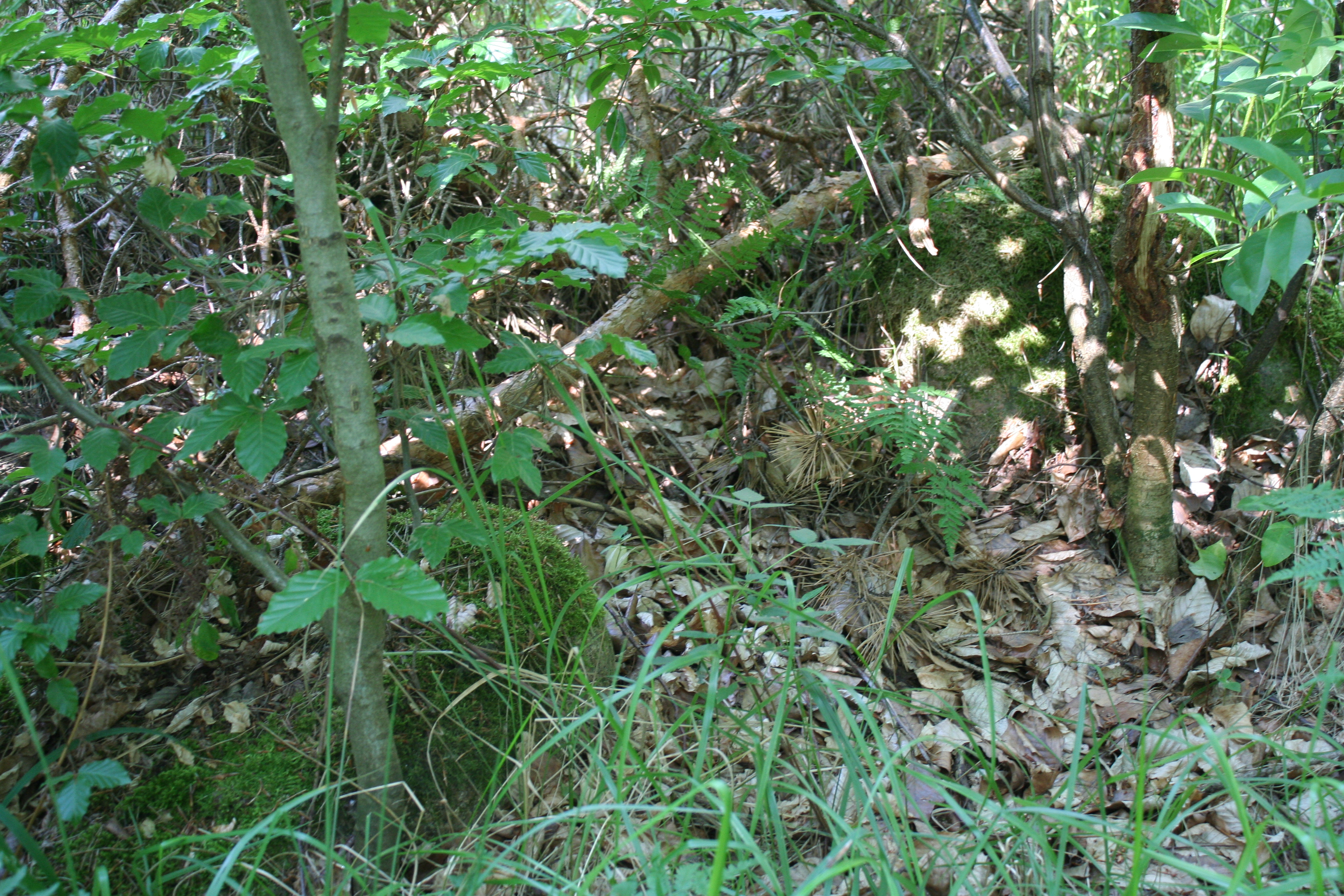 Megalithic tomb Bebertal I 11